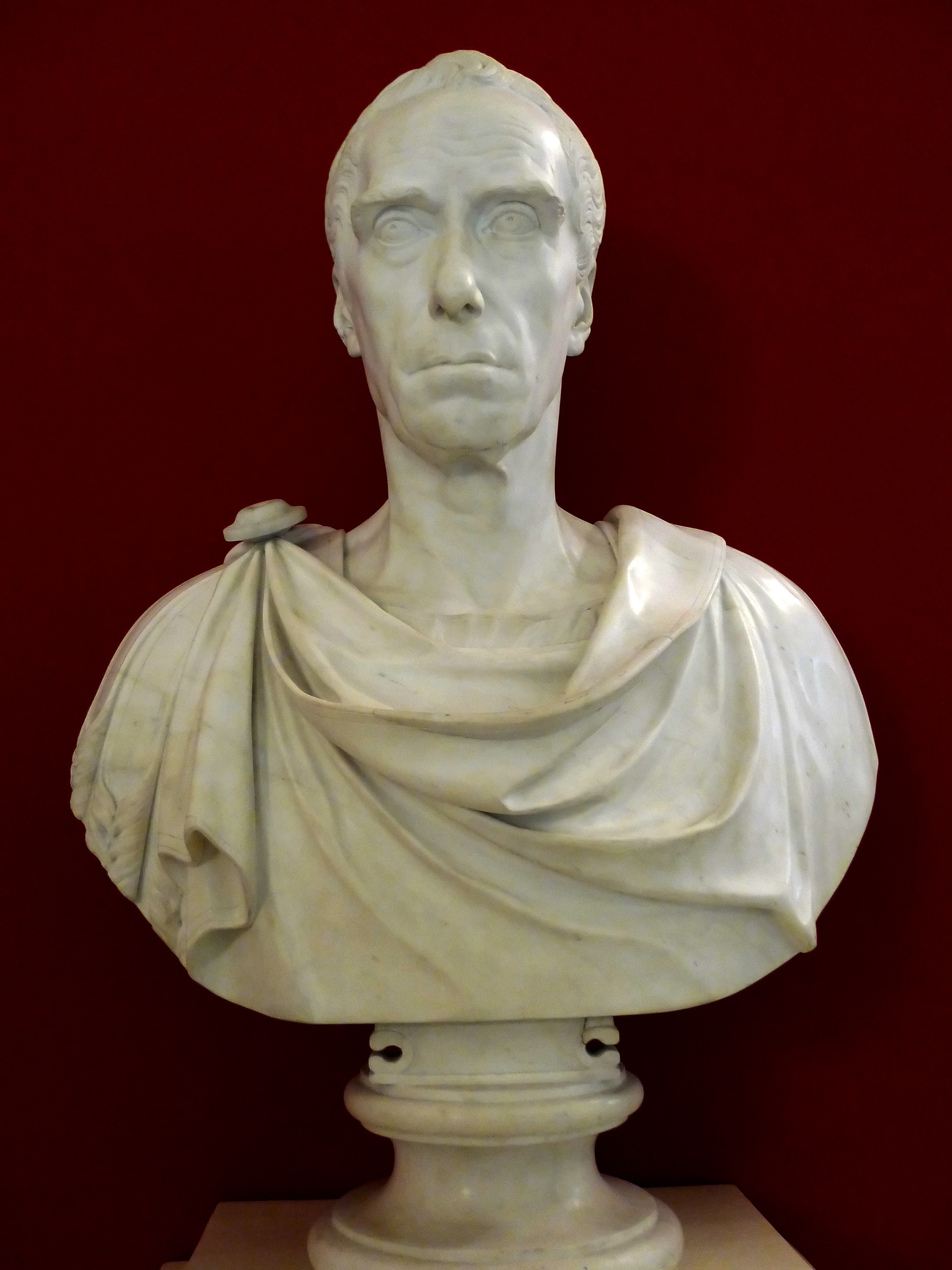 Ernst Gideon von Laudon, Austrian general. Marble bust, Heeresgeschichtliches Museum Wien.